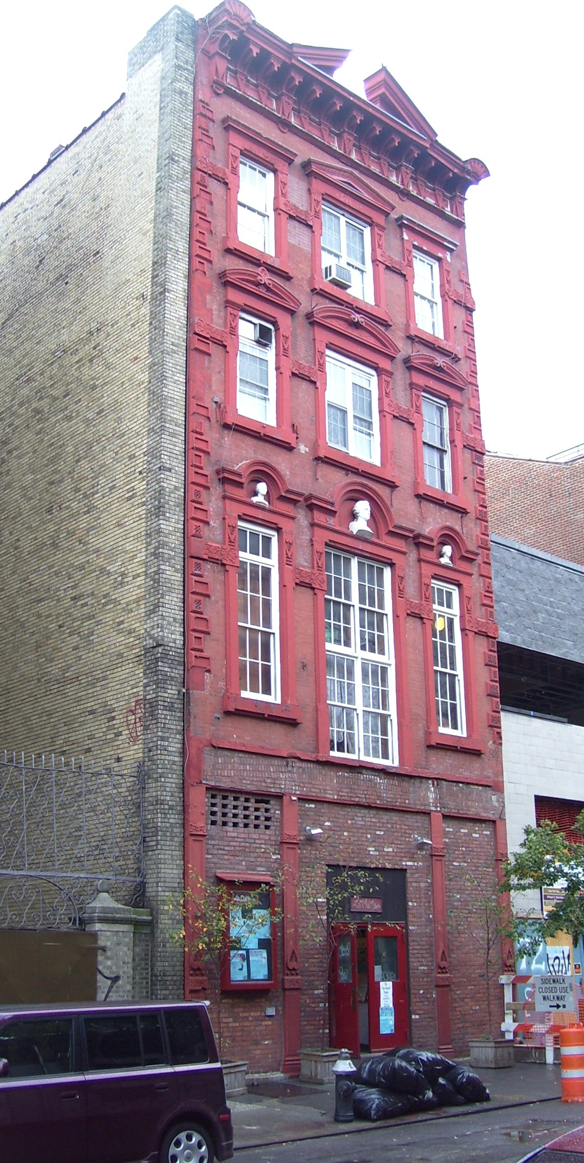 The building, at 74A East 4th Street between 2nd Avenue and the Bowery in the East Village nieghborhood of lower Manhattan, New York City, which houses the administrative offices and three of the theatres of La MaMa Experimental Theatre Club (La Mama E.T.C.). Their Annex is down the street at 66 4th Street, and rehearsal spaces and other facilities are at 47 Great Jones Street. The building was occupied by the Aschenbroedel Verein, a German-American musician's society, from around 1860 to 1890. It was taken over by the Schillerbund Gesangsverein, a German-American singing society in 1892, who completely renovated the building. In 1910 the building was known as Floral Garden Hall. The building is in Renaissance Revival style, and has three busts of composers on the facade above the second floor. La Mama has occupied it since 1974.